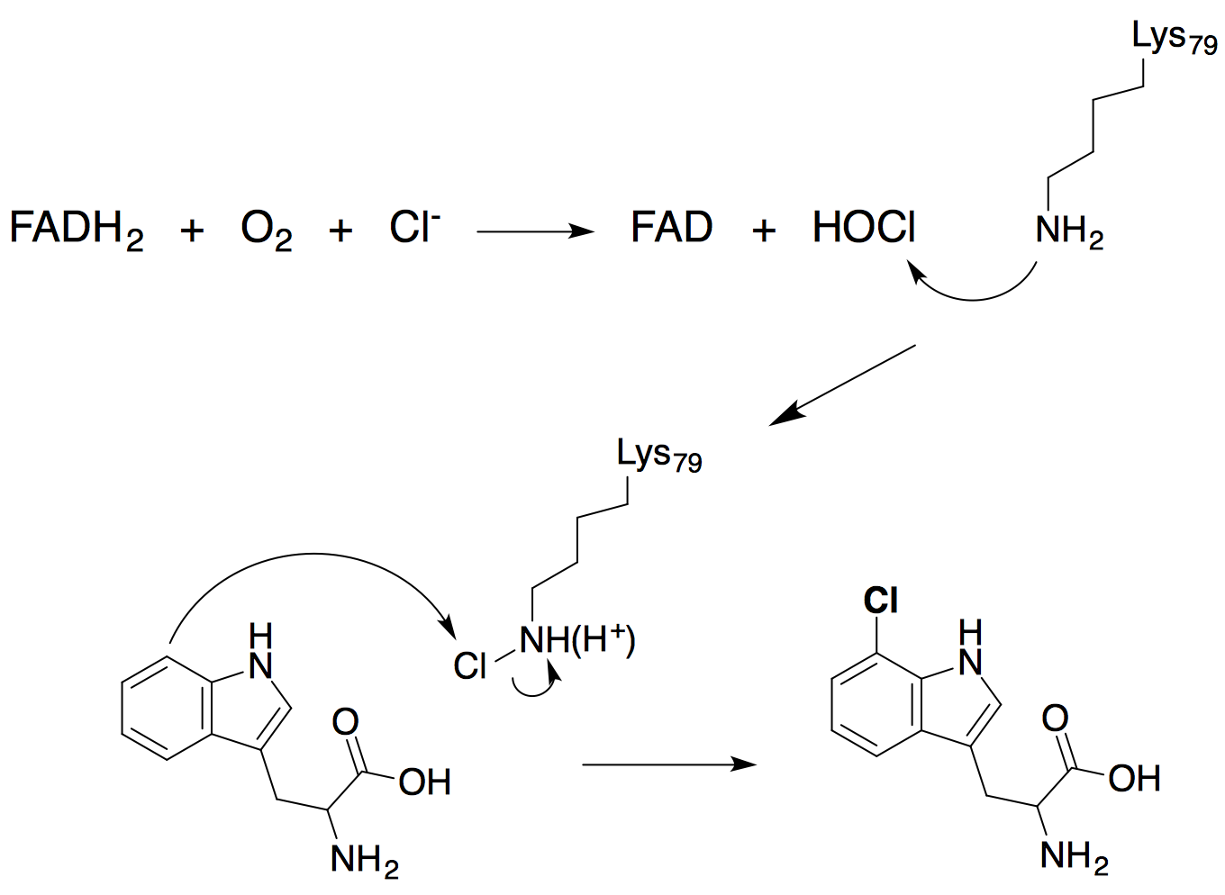 Schematic representation of RebH's catalytic mechanism.